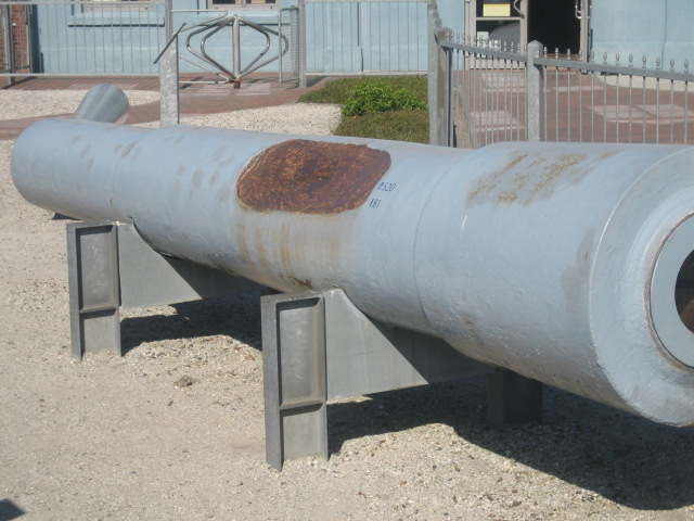 11´´ gun barrel of the SMS Seydlitz (1912). The barrel has been heavily damaged by a direct hit in the battle of Jutland (1916). The gun barrel is an exhibit of the german naval museum in Wilhelmshaven